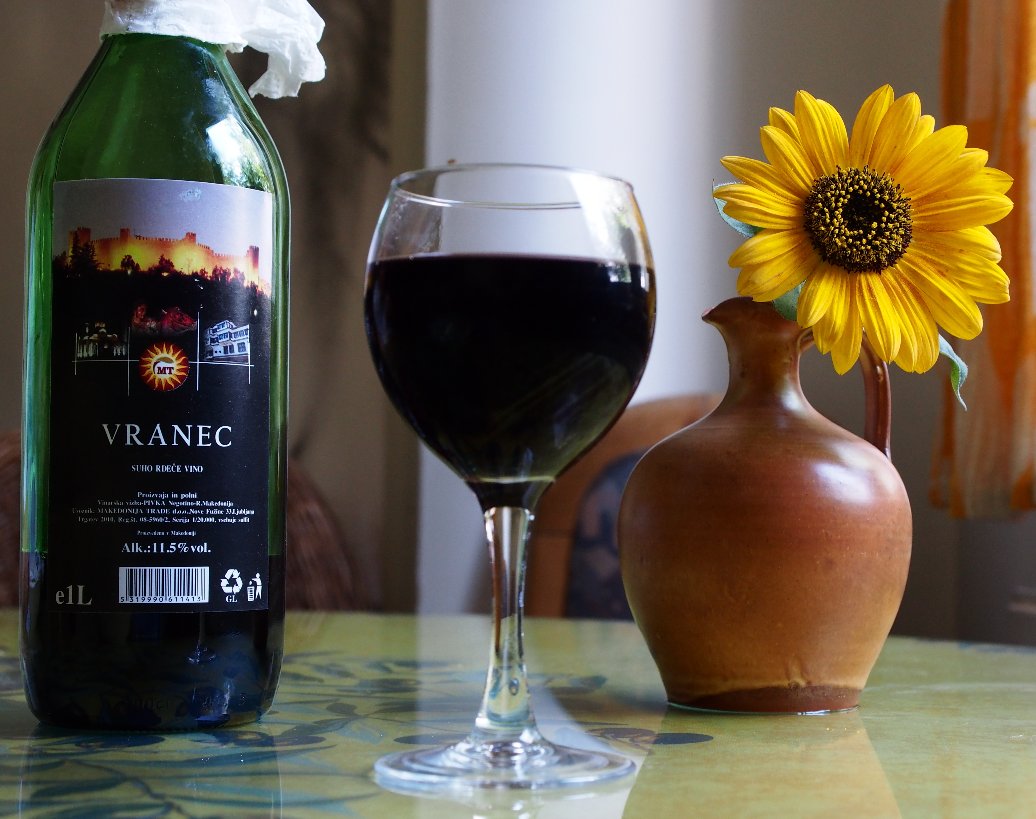 Macedonian dry red wine Vranec.Српски (ћирилица): Македонско суво црвено вино Вранец.